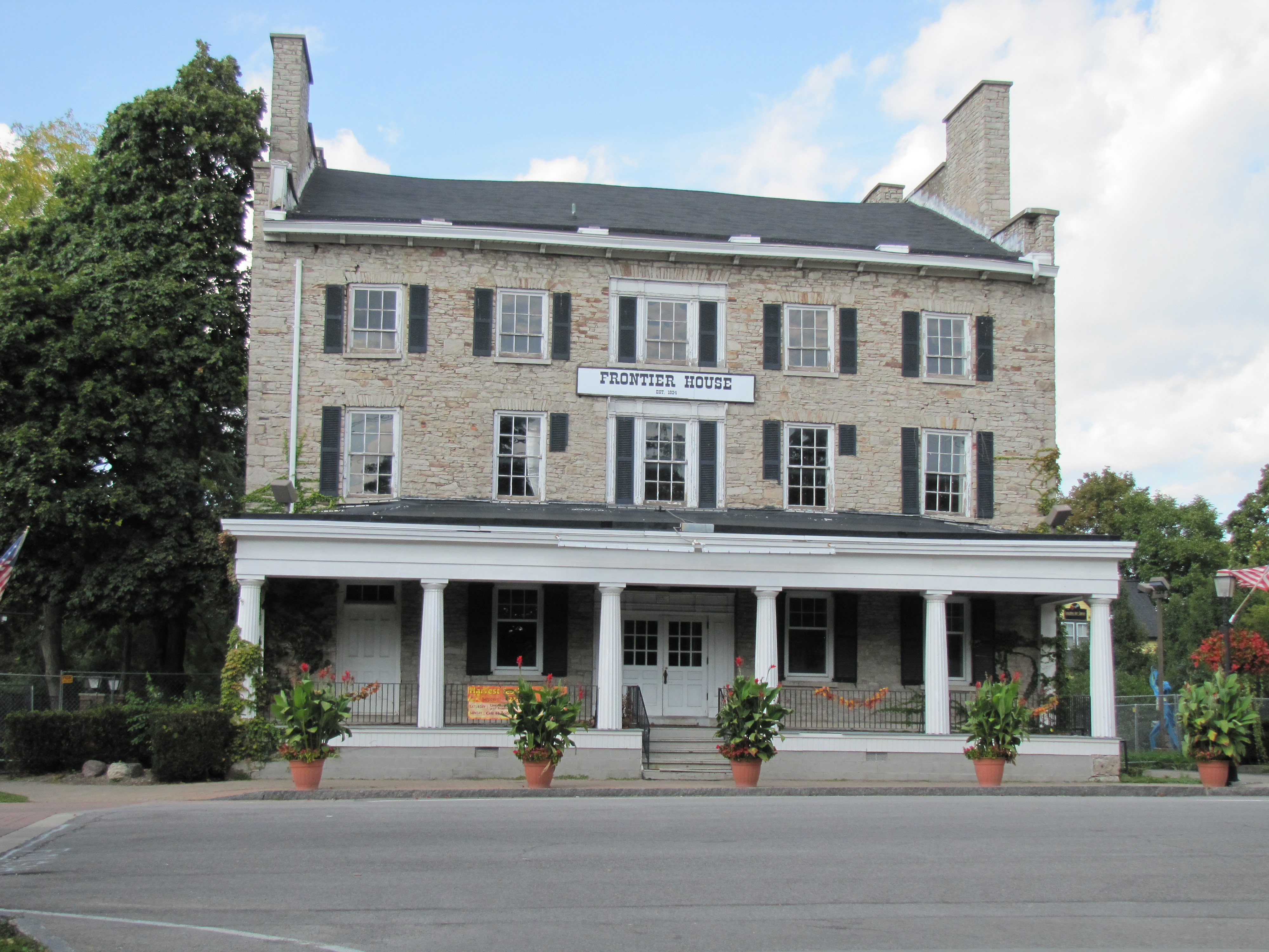 Stone building former hotel built in 1824 Lewiston NY.